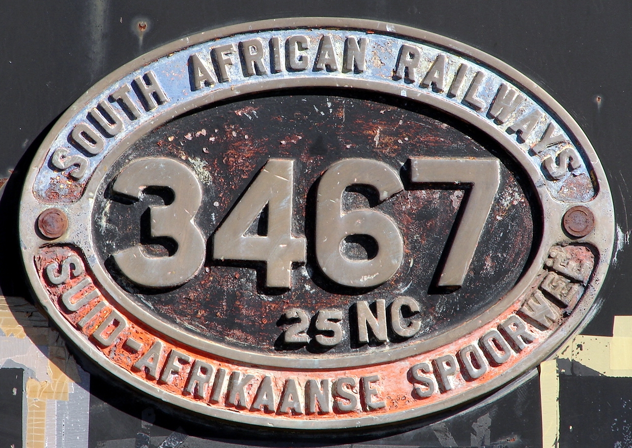 SAR Class 25NC 3467 (4-8-4) number plateBuilder's Number: NBL 27327Type: Non condensingLocation: Beaconsfield, Kimberley, Northern CapeReclassification: From Class 25 (condensing) to Class 25NC (non condensing)